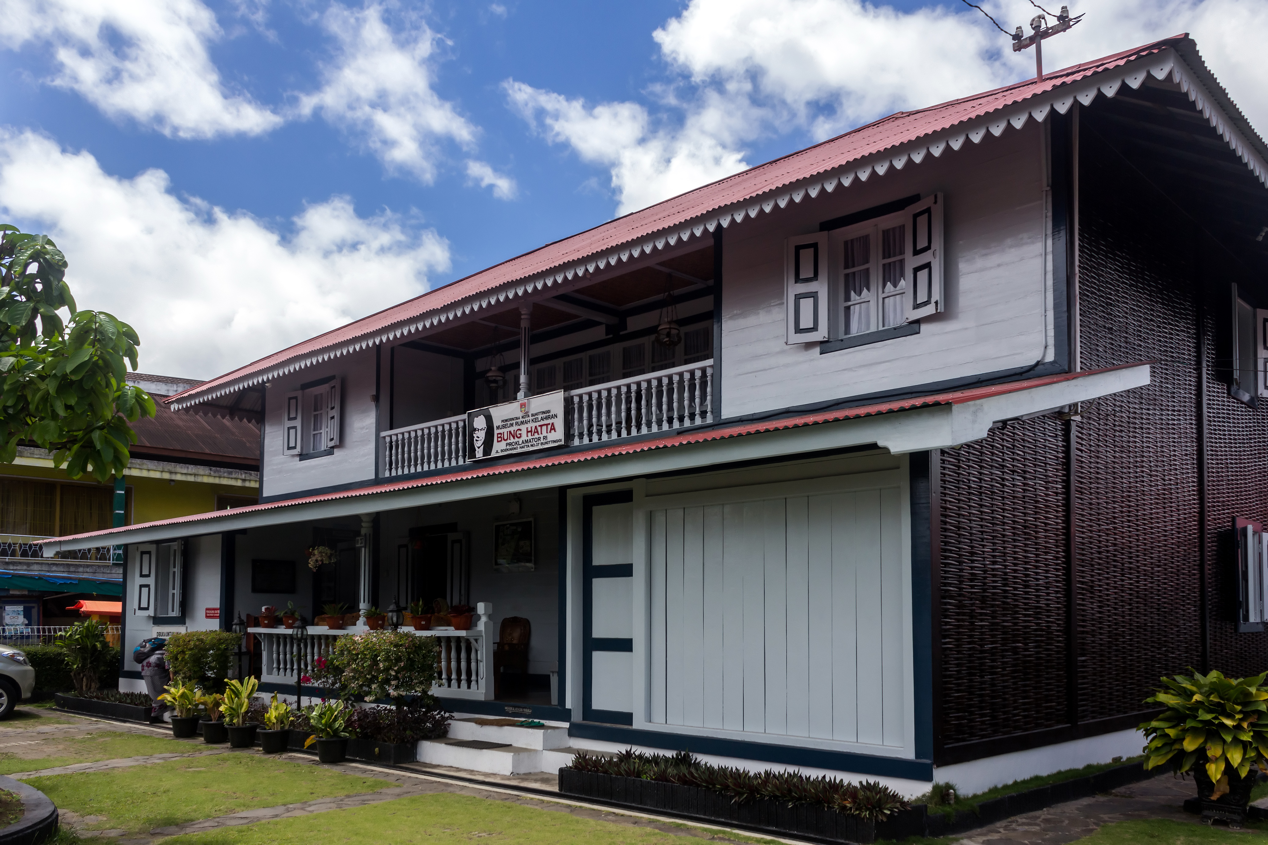 Mohammad Hatta Birth Place and Museum, Bukittinggi, West Sumatra 2017-02-13